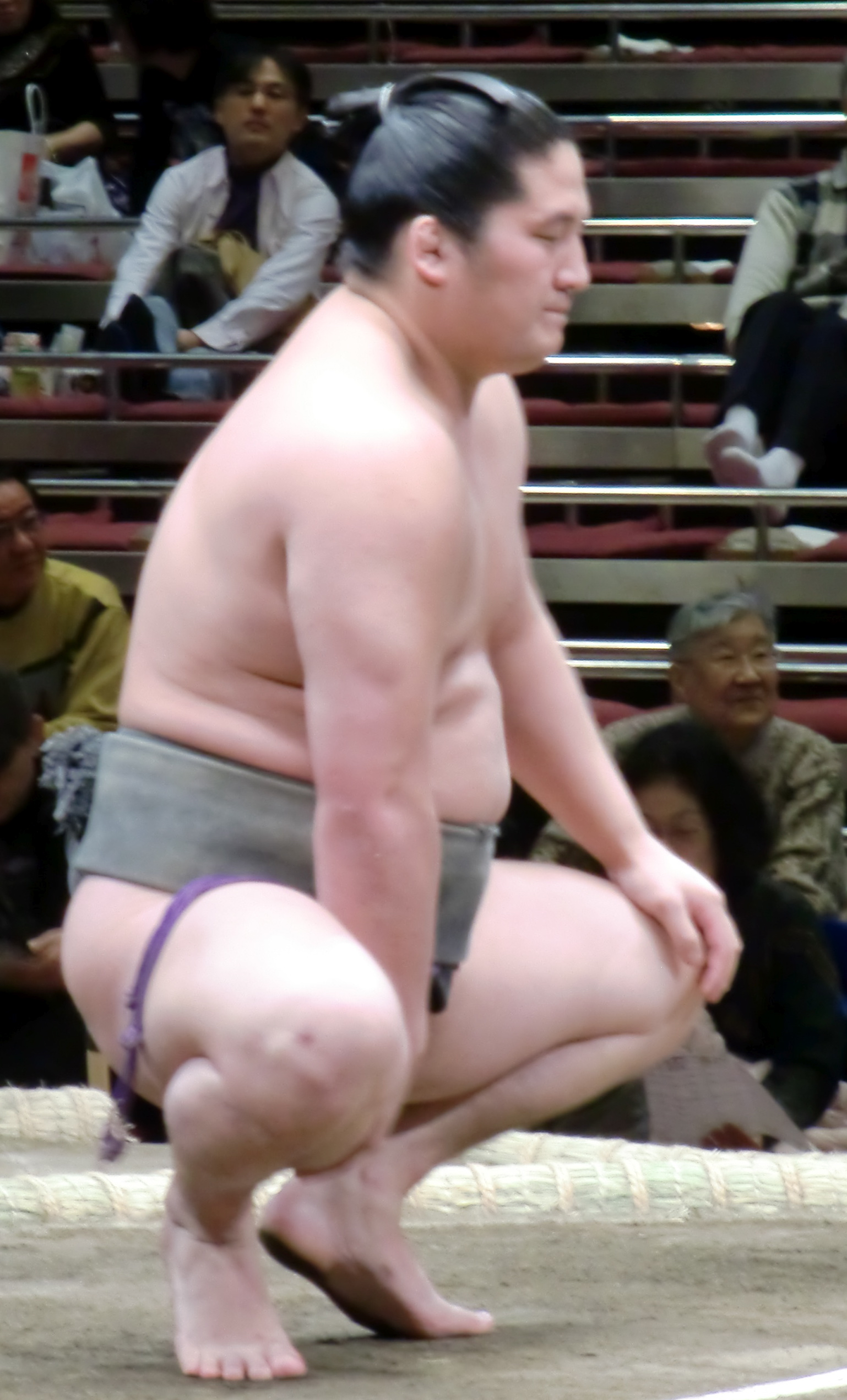 taken at Jan 2010 tournament